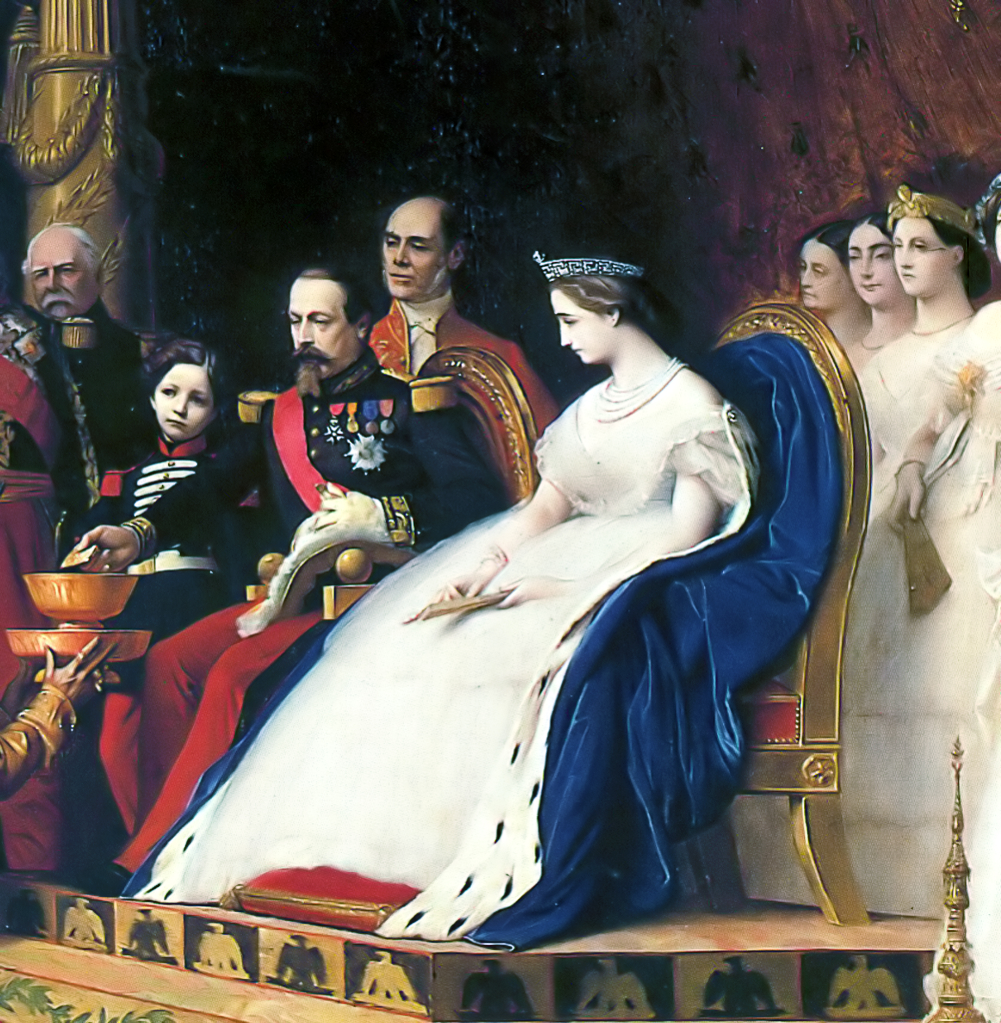 Napoleon III receiving the Siamese embassy at the palace of Fontainebleau in 1864.